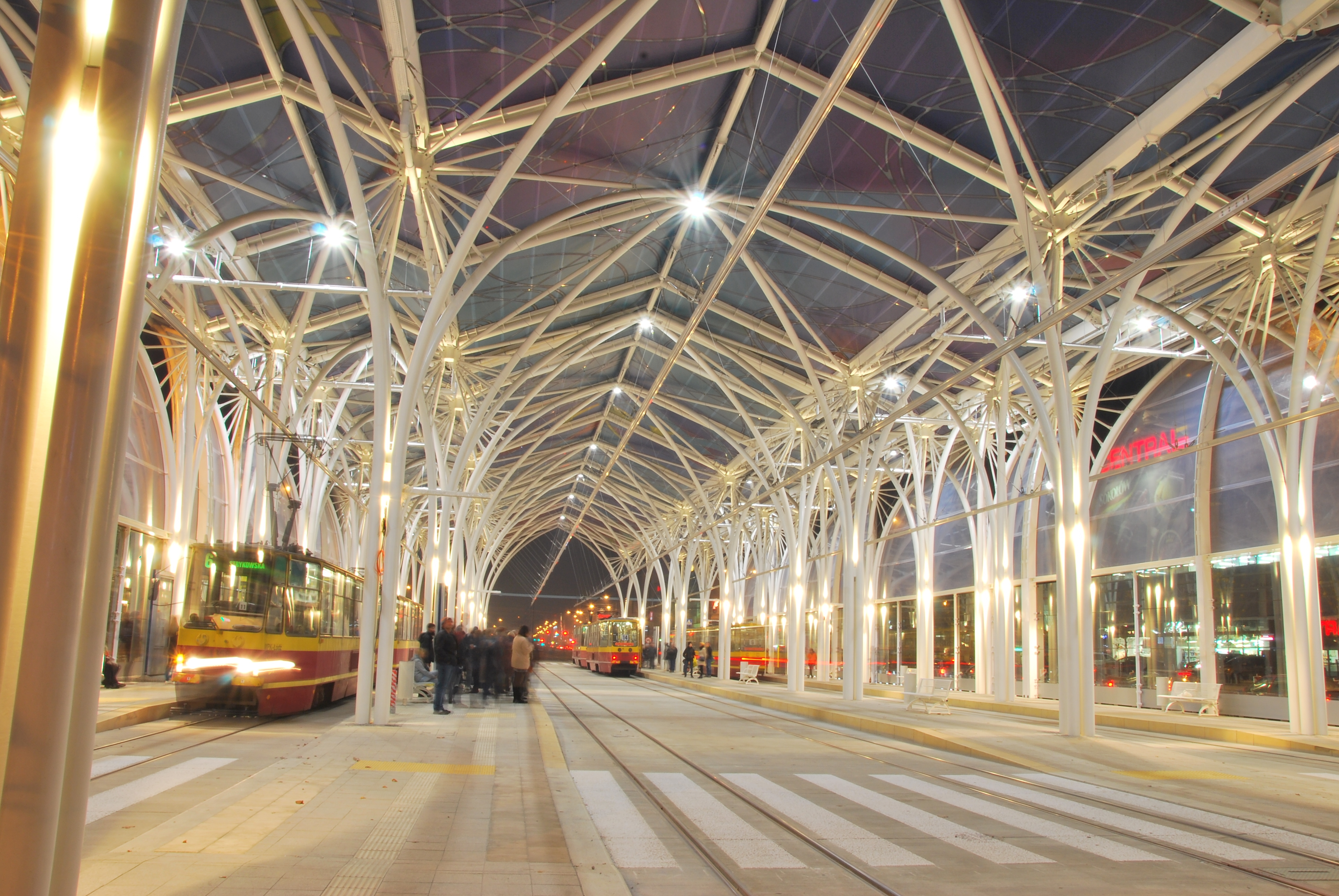 Transfer station Piotrkowska-Centrum, Łódź Piłsudskiego Av. November 2015